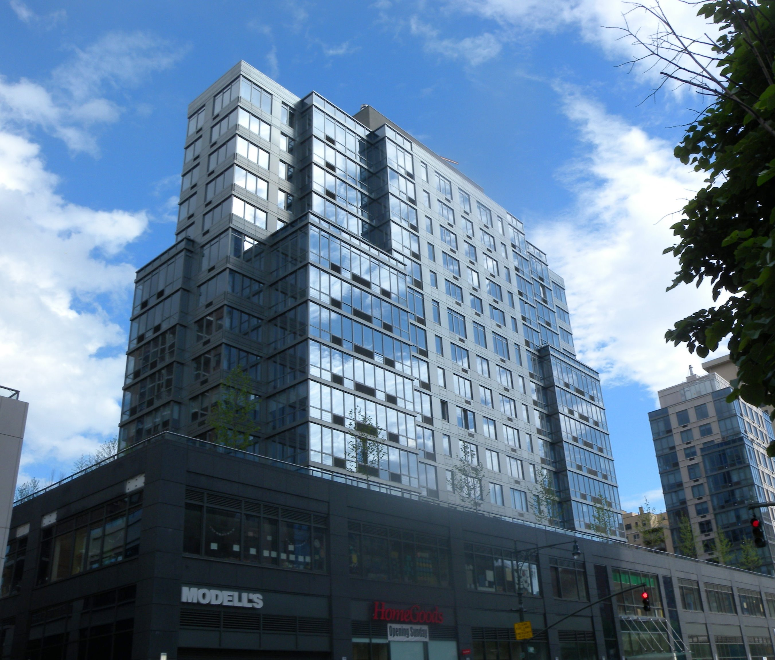 Looking southeast at 795 Columbus Avenue on a mostly sunny afternoon.